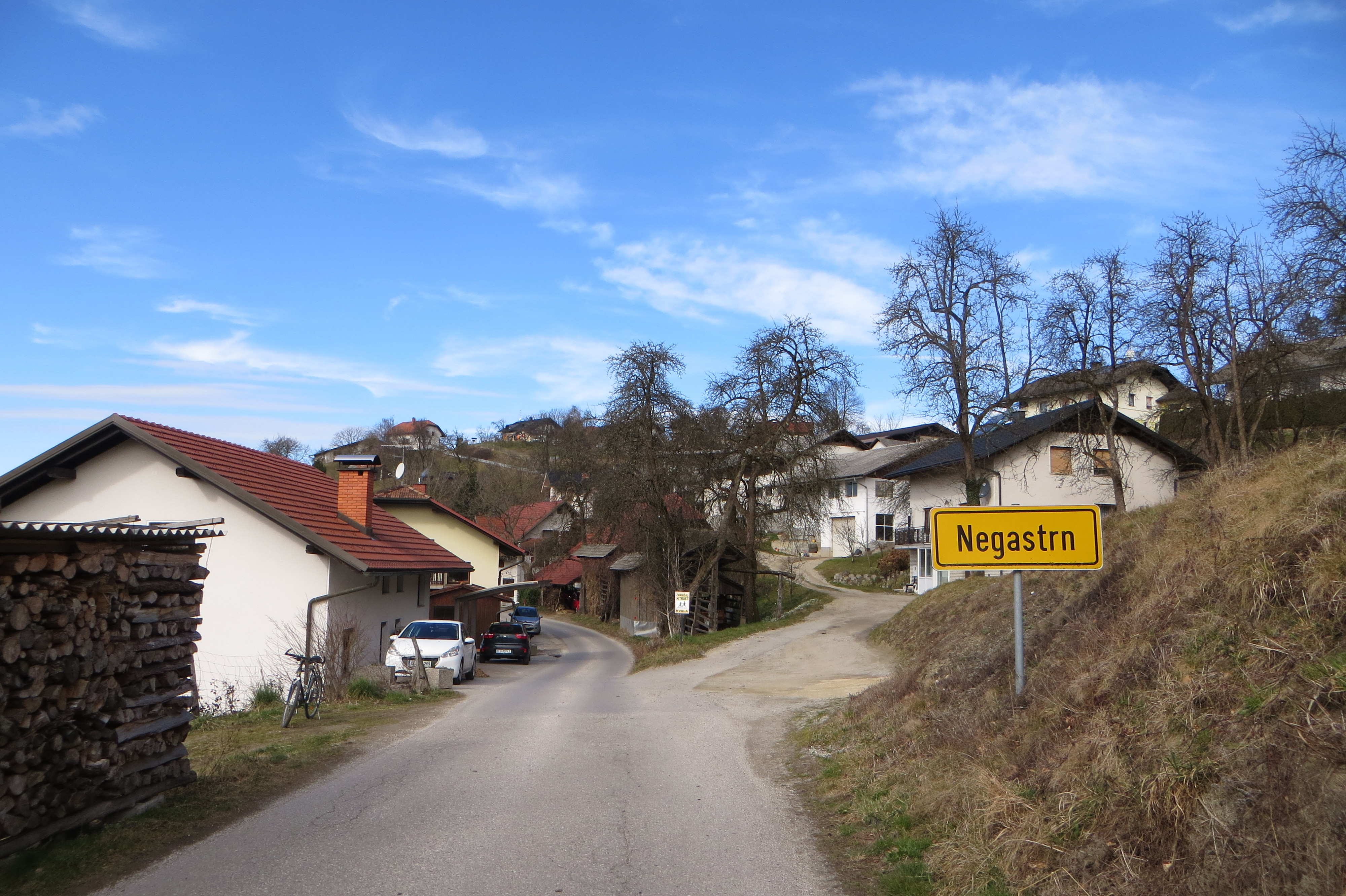 Negastrn, Municipality of Moravče, Slovenia